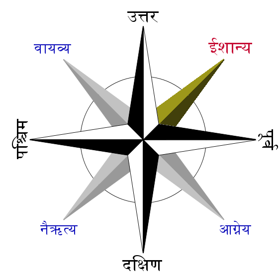 Southwest